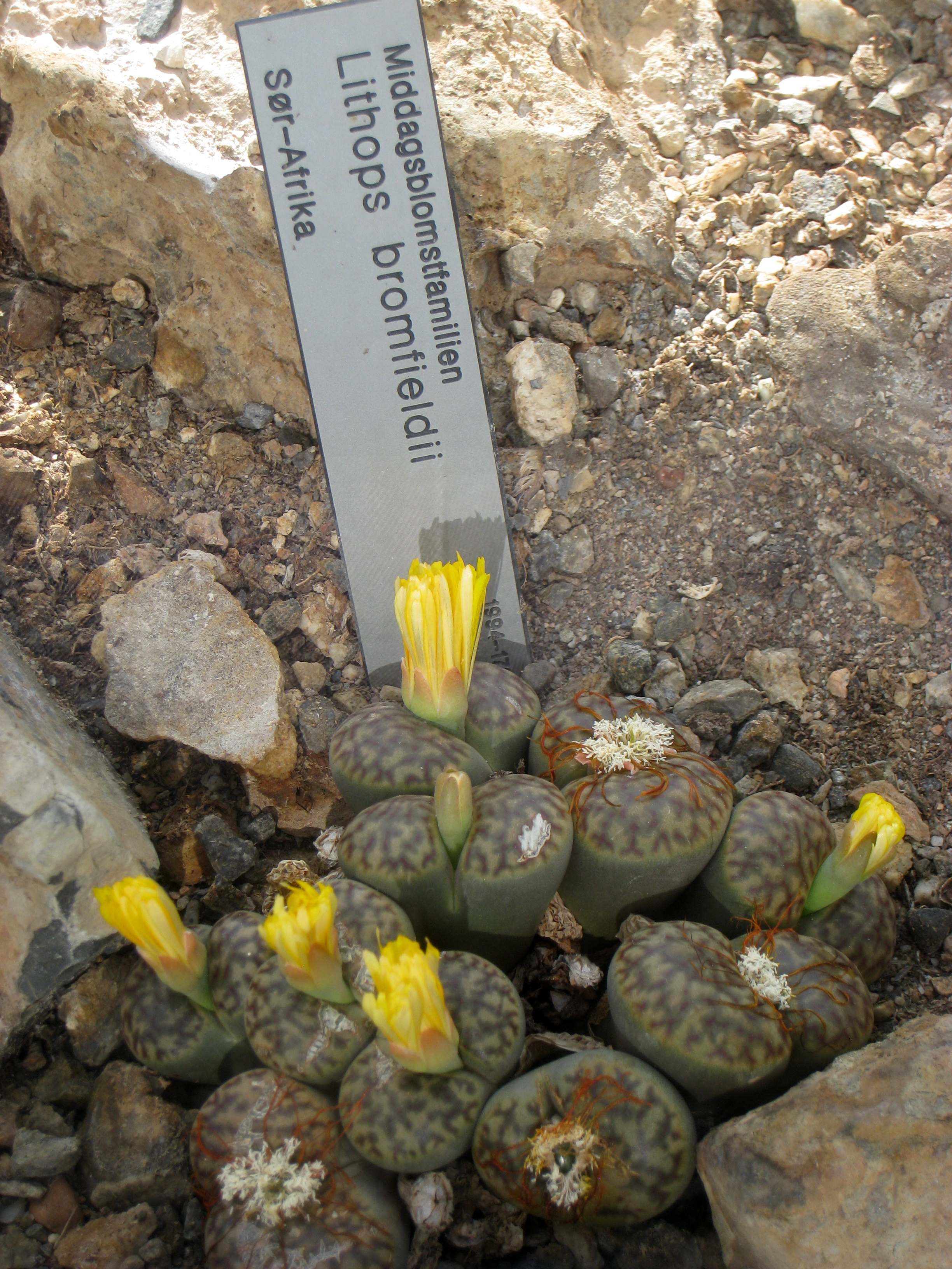 Lithops bromfieldii, Oslo Botanical Garden, Oslo, Norway.